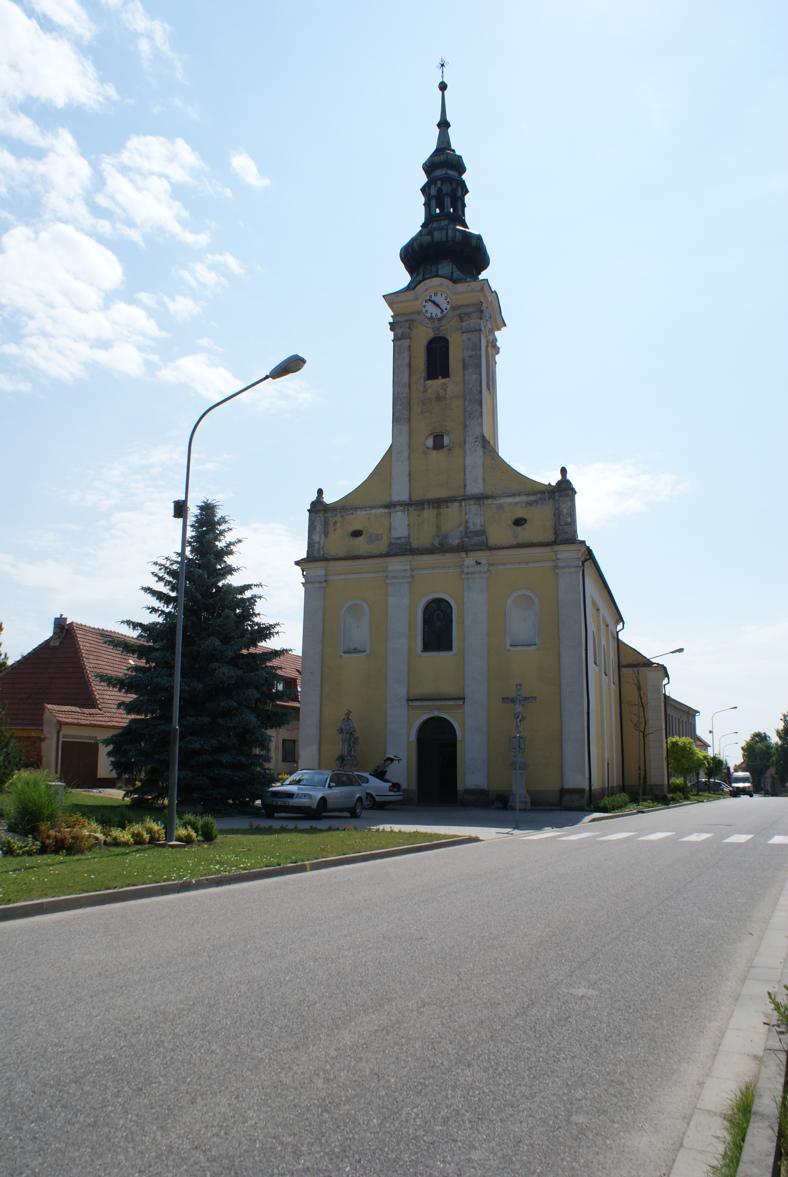 Popice, a village in Břeclav District, Czech Republic, church of St Andrew.